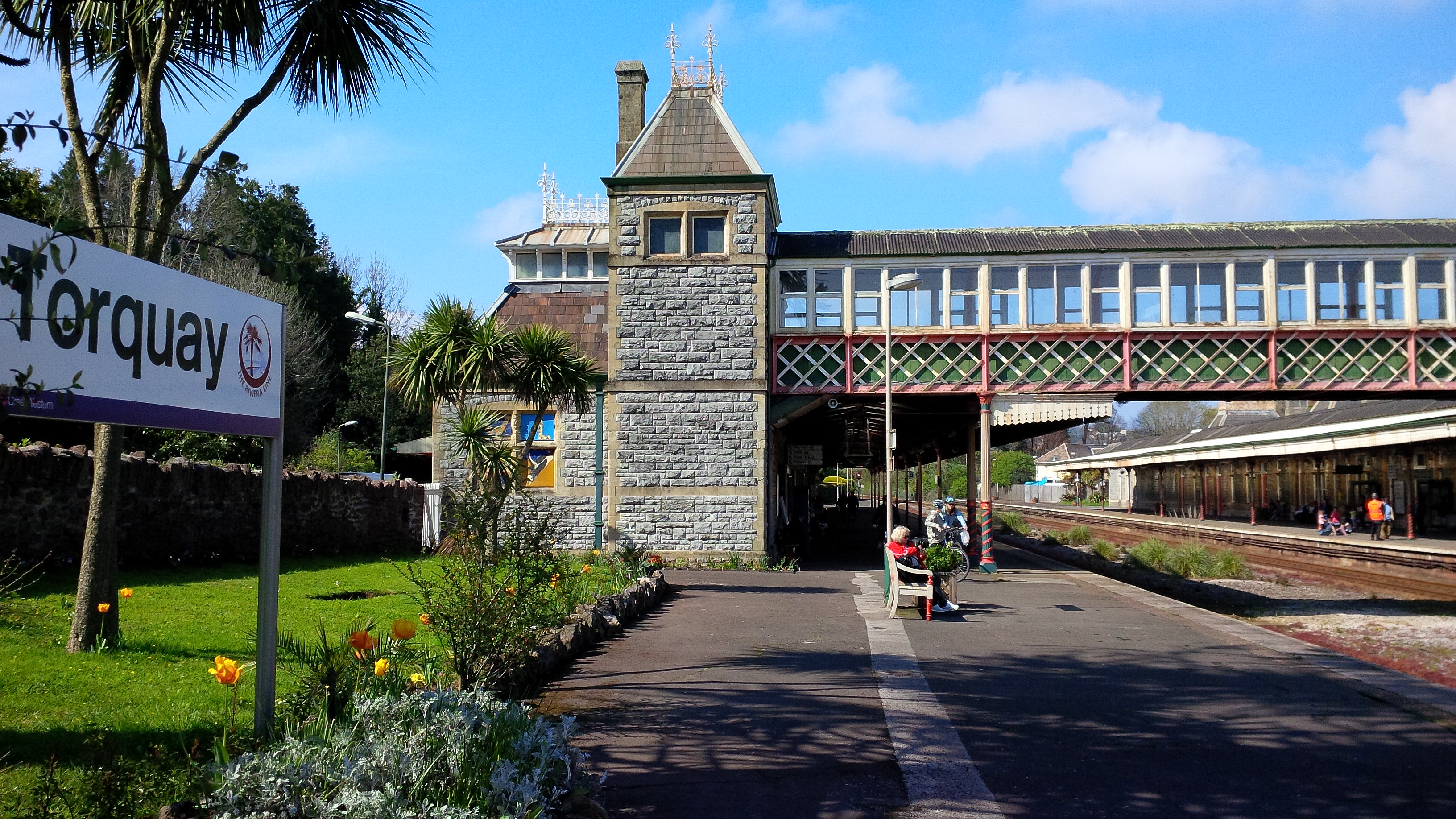 Interior of the Torquay railway station (2014).